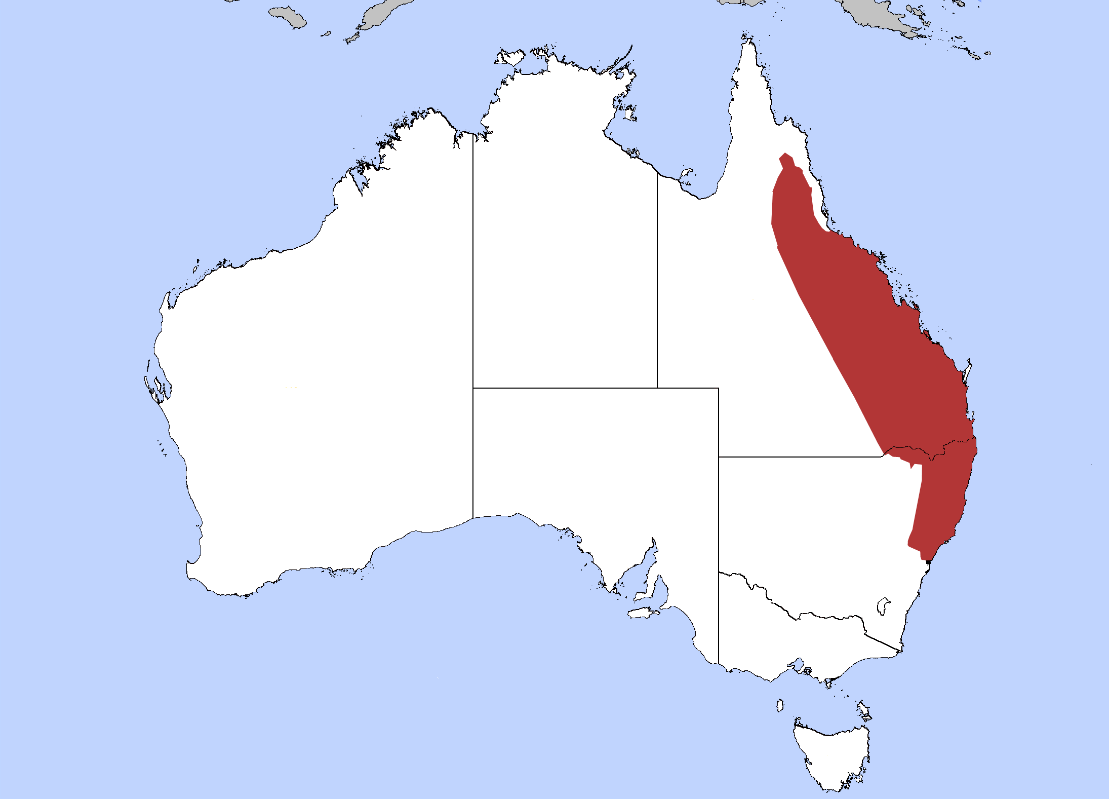 The Rufous Bettong's Range